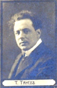 The portrait of the Bulgarian actor Tacho Tanev, cropped from a postcard of the Bulgarian National Theatre "Ivan Vazov"